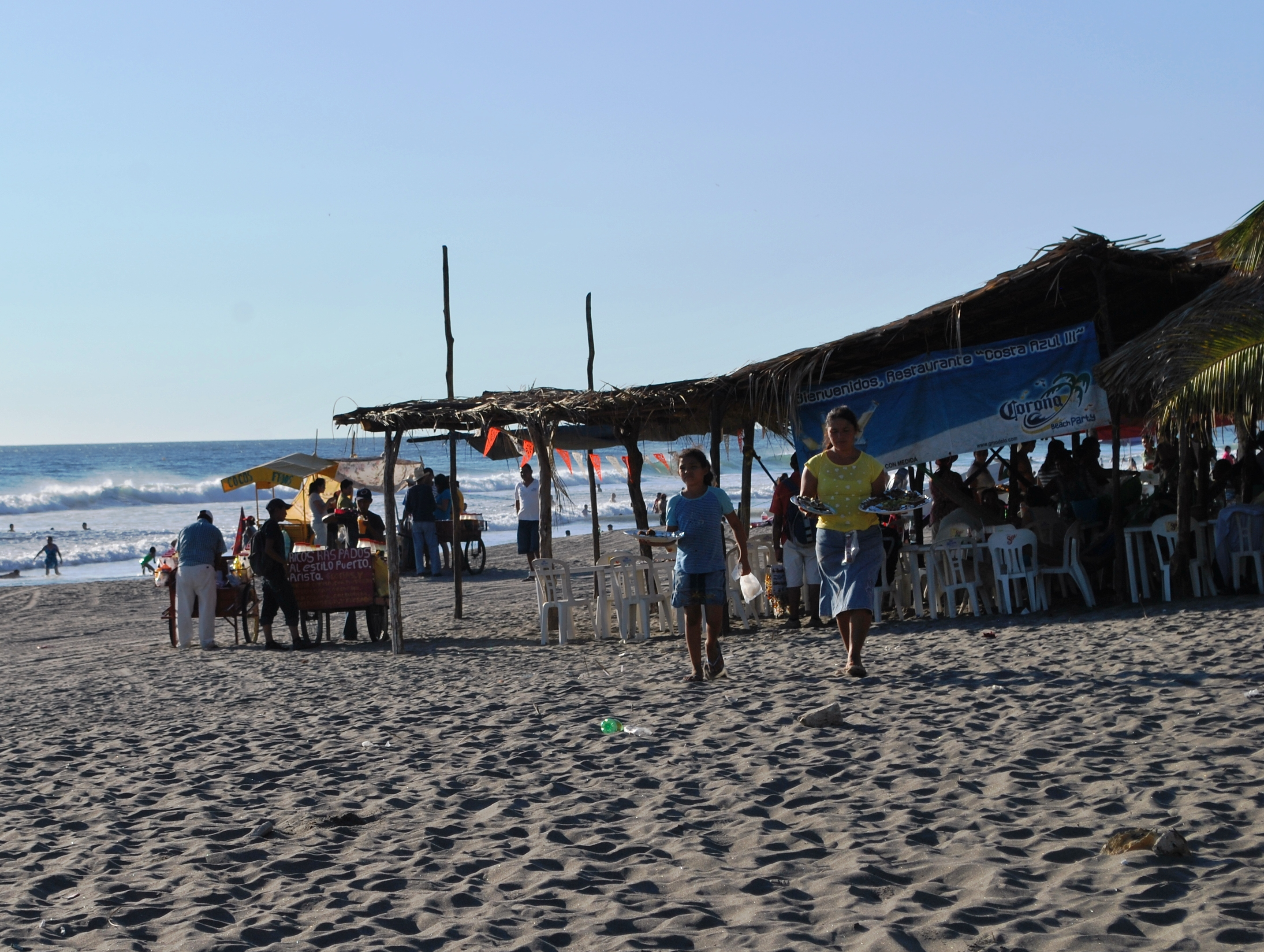 View of beach with vendors at Puerto Arista, Chiapas